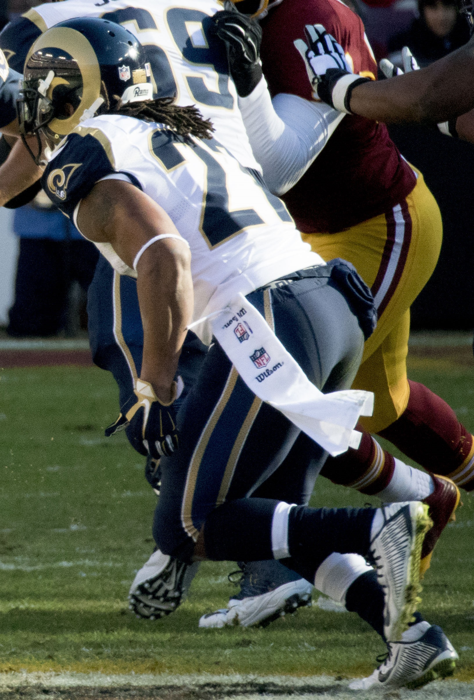 Rams at Redskins 12/7/14